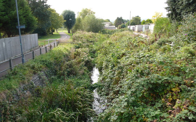 Malago Vale, Bristol, looking south-west This shows a more rural section of the Malago 'river' as it flows towards the city centre across what is now a green open space including sports facilities. Closer to the centre, it is culverted underground for significant stretches. A variety of interesting, and sometimes rare, plants can be found in and around the watercourse. Several such streams flow across Bristol and into the Avon and its sister rivers, providing vital natural habitat for wildlife.